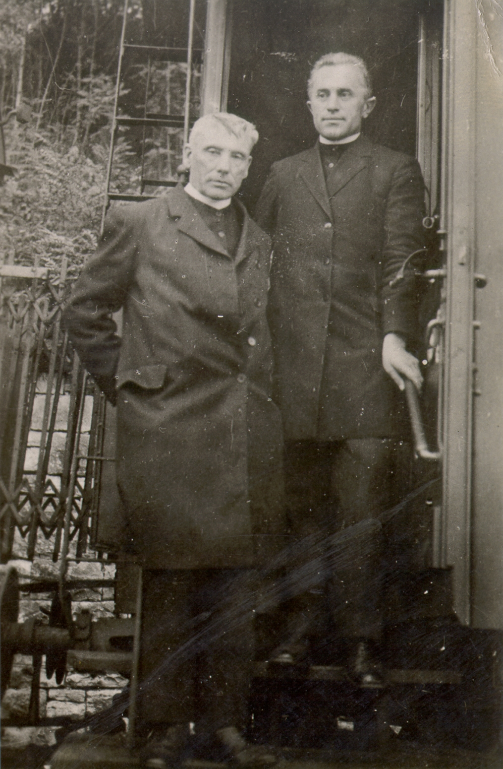 Jožef Klekl and Ivan Jerič